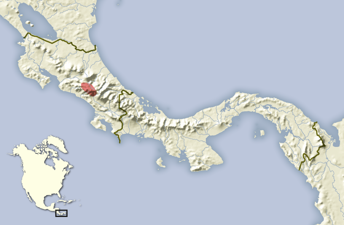 Distribution map of the mountain spiny pocket mouse